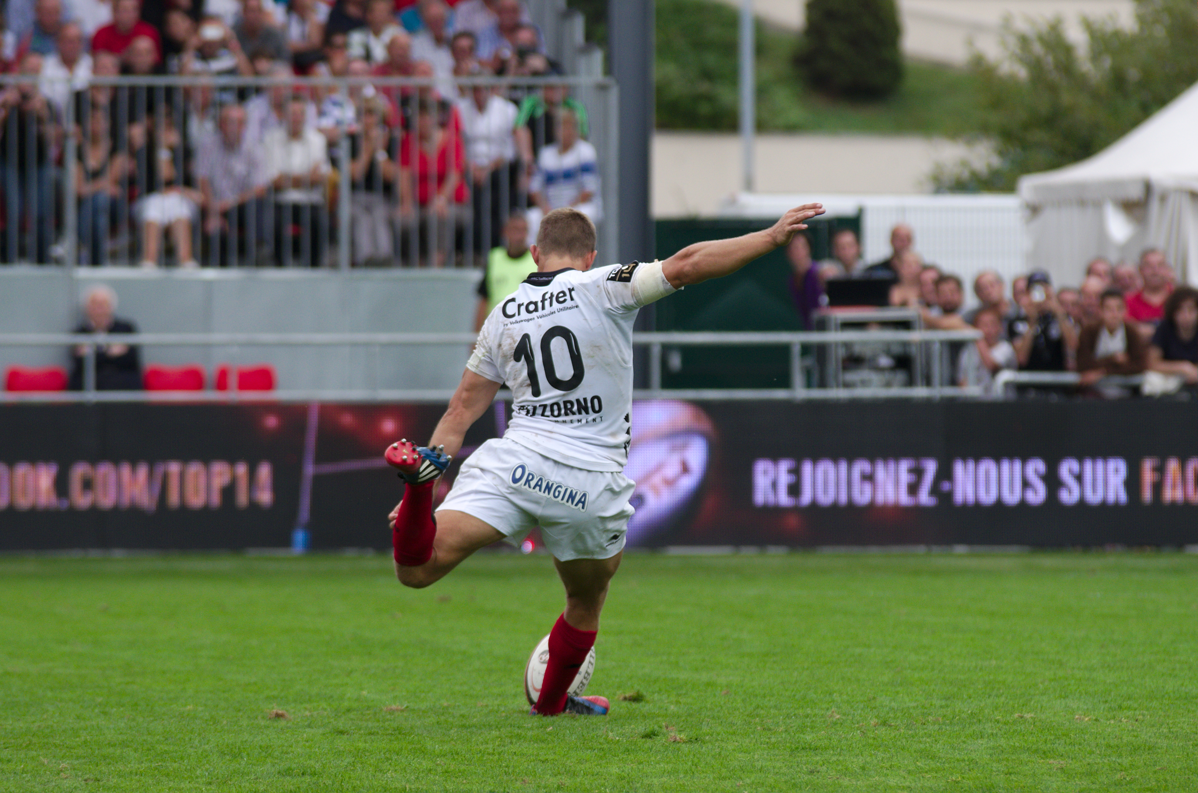 USO - RCT - 28-09-2013 - Stade Mathon - Jonathan Wilkinson